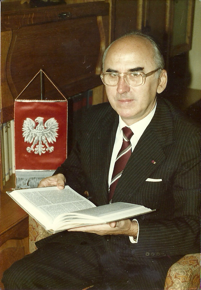 Witold Jurasz, Polish diplomat, Baghdad 1987.